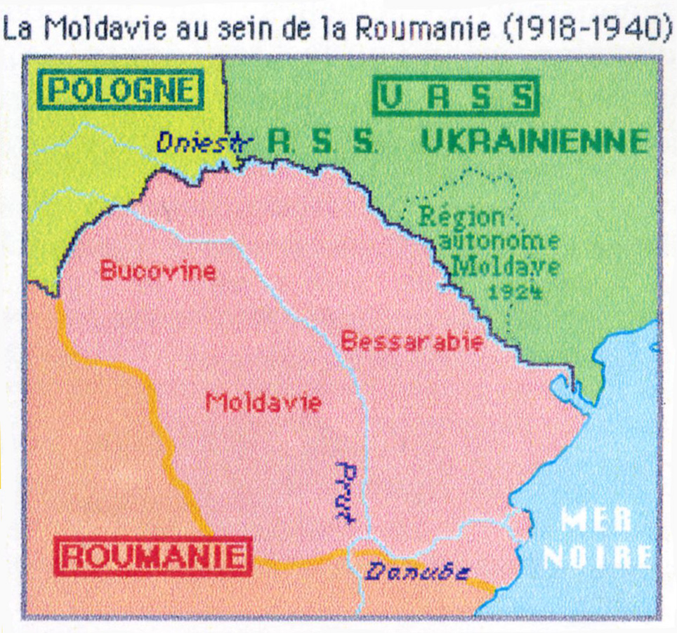 Map of Moldova/Moldavia 1918-1940